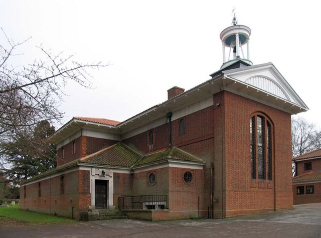 St Martin, Knebworth, Herts